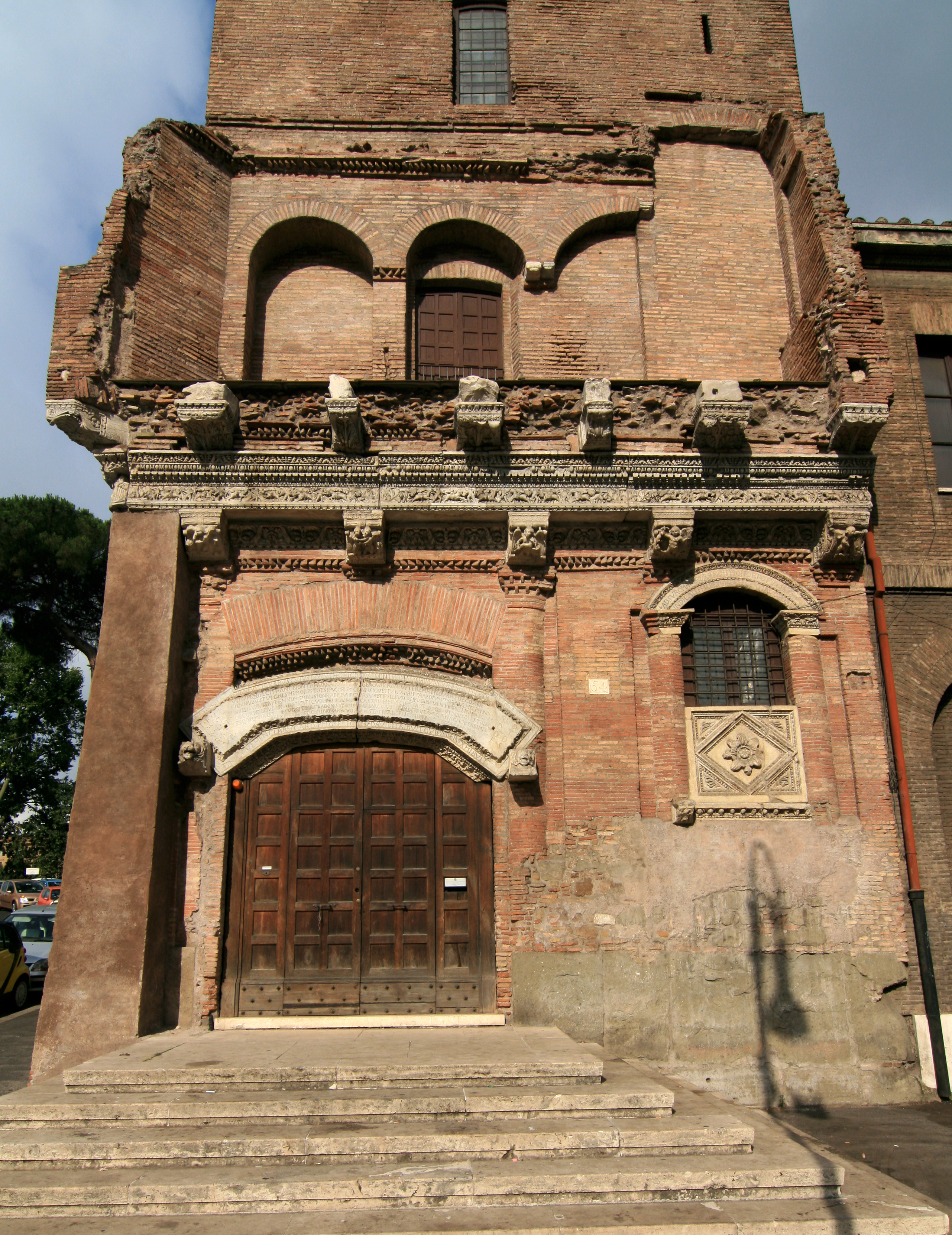 Casa dei Crescenzi (Casa di Cola di Rienzo, Casa di Pilato), Rome.